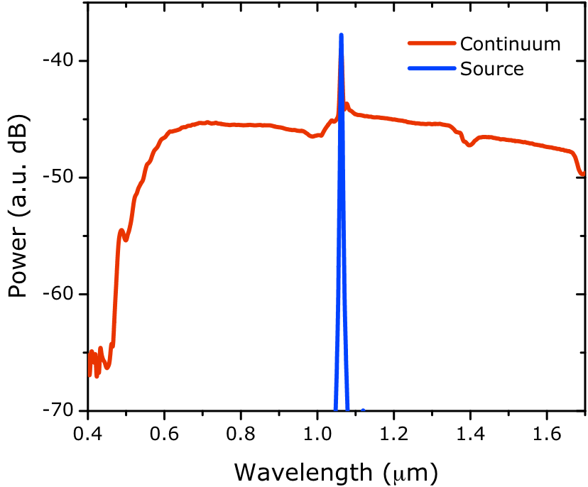 Graph showing the spectrum of a 1 μm pump source and the spectrum of the resulting supercontinuum generated in a photonic crystal fiber.